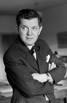 Swedish historian Alf Åberg